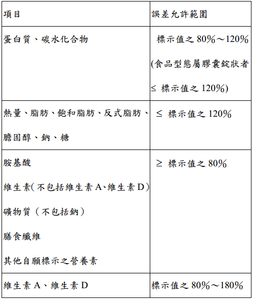 Nutrition facts label format 4-1 of Taiwan